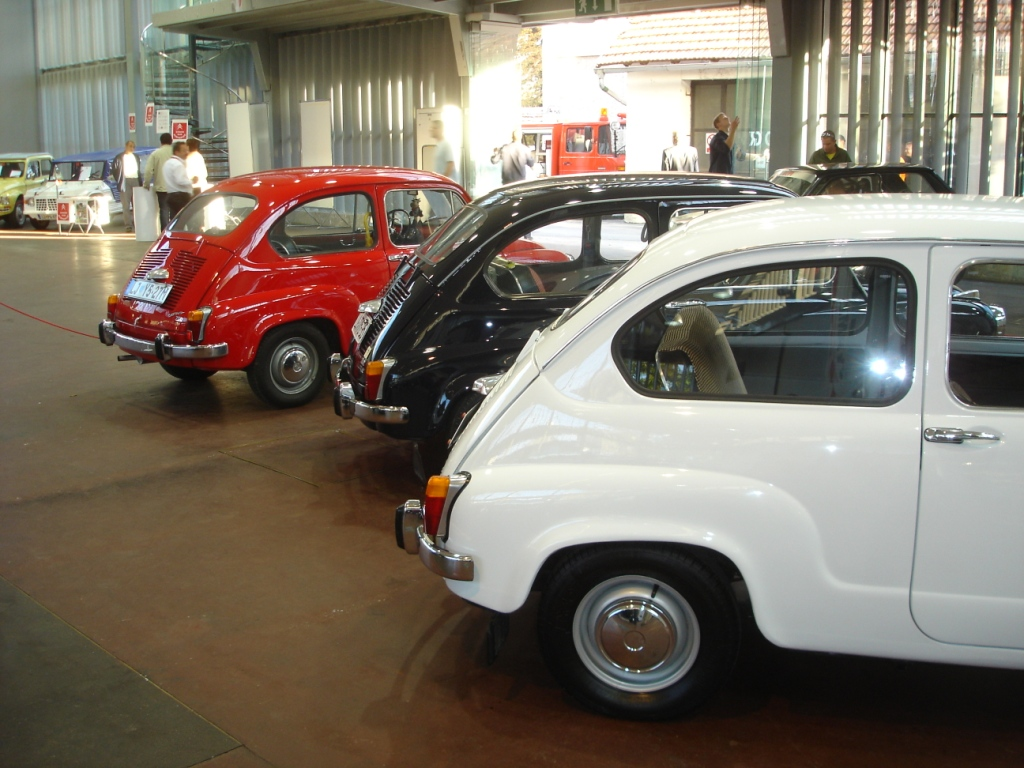 The three fičos on the 1. Oldtimer festival Codelli in Ljubljana, Slovenia